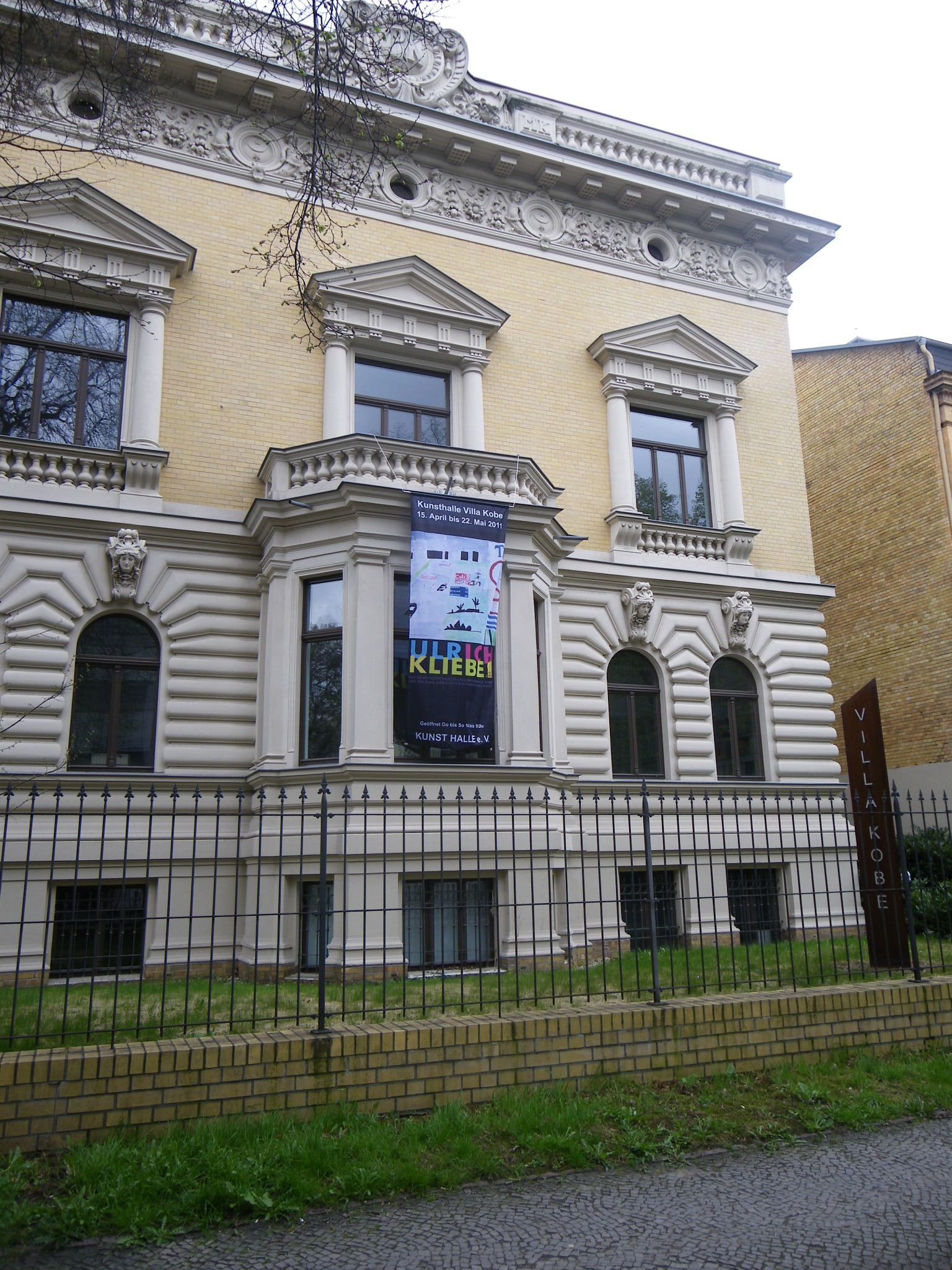 the museum for modern art in Halle (Saale)